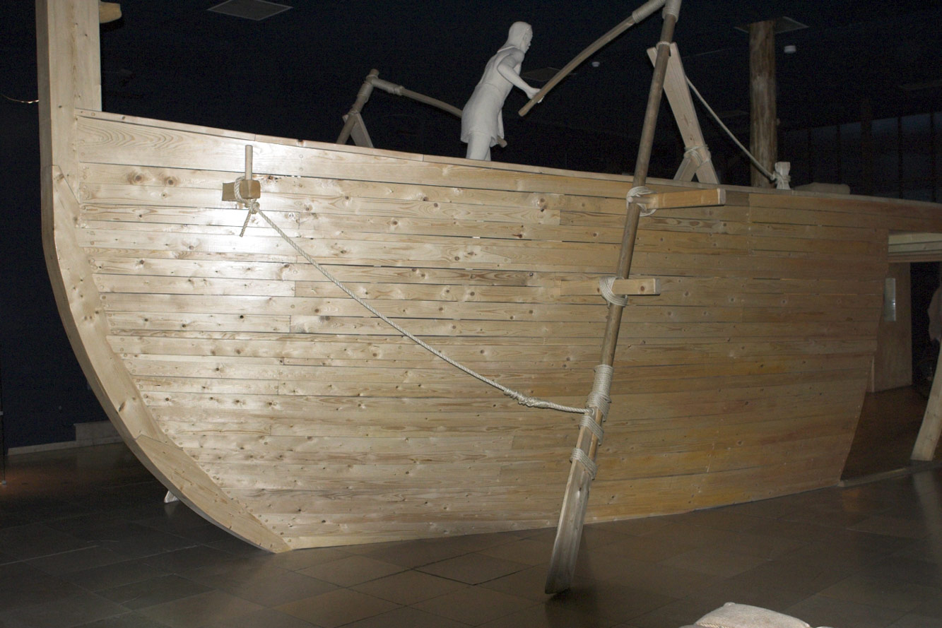 Information Description: Stern as part of the ship replica (exhibition room) Source: own work Date: June 2006 Author: Martin Bahmann